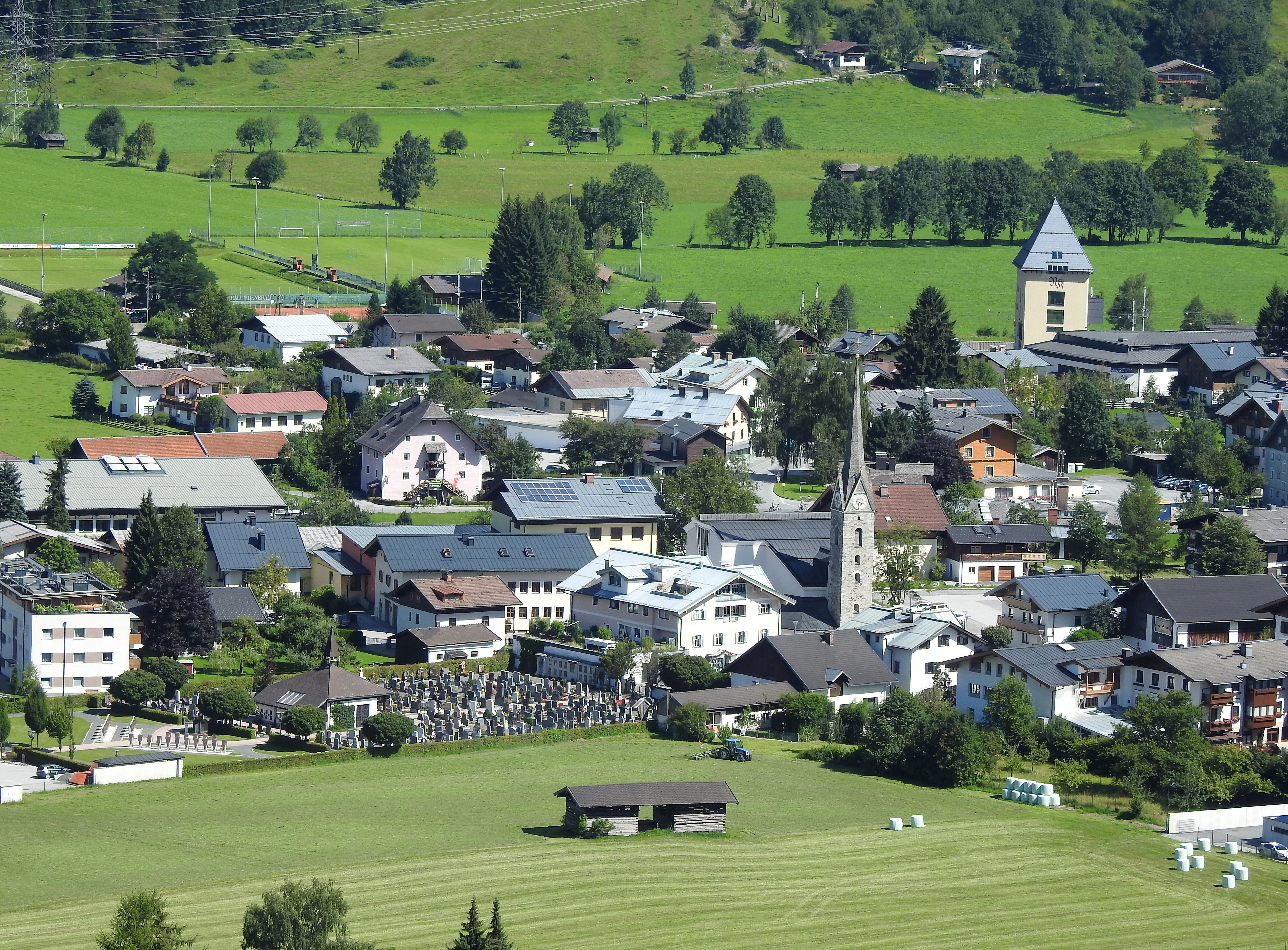 Maishofen, Salzburg (state), Austria